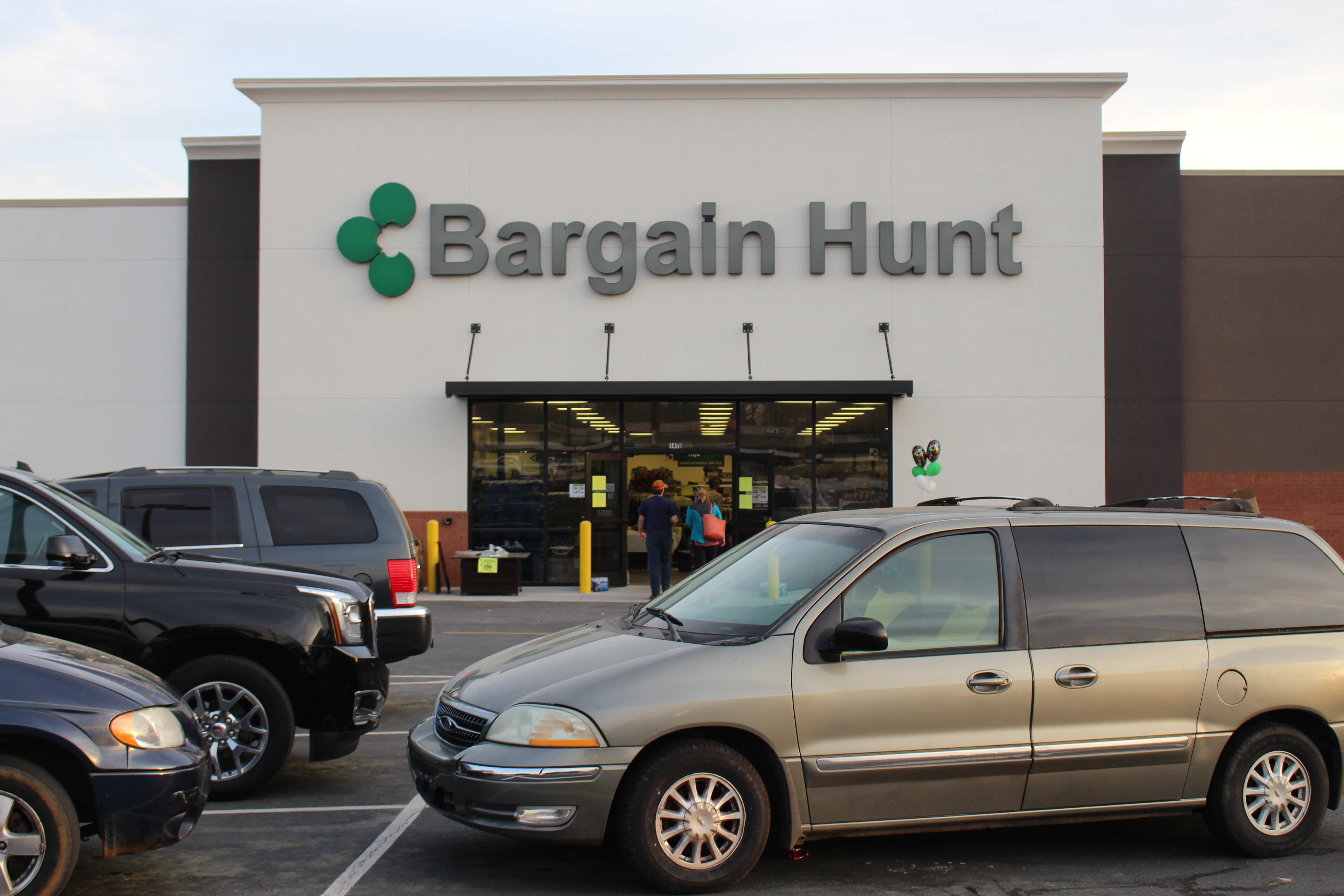 Spalding Village, Griffin, Georgia